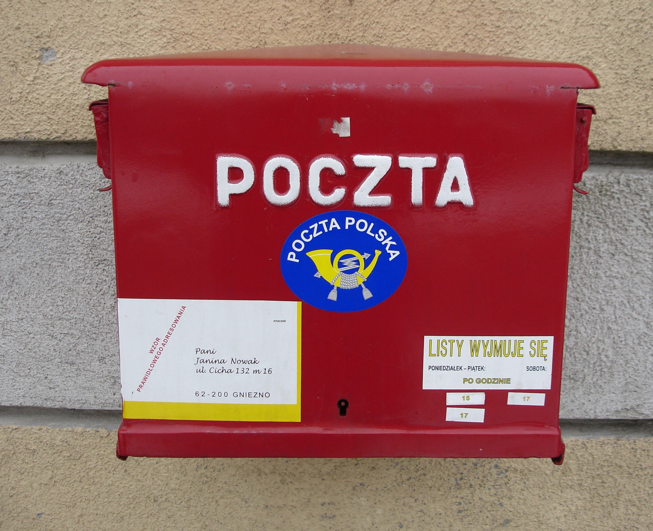 Polish mail box, Gdansk, Poland.